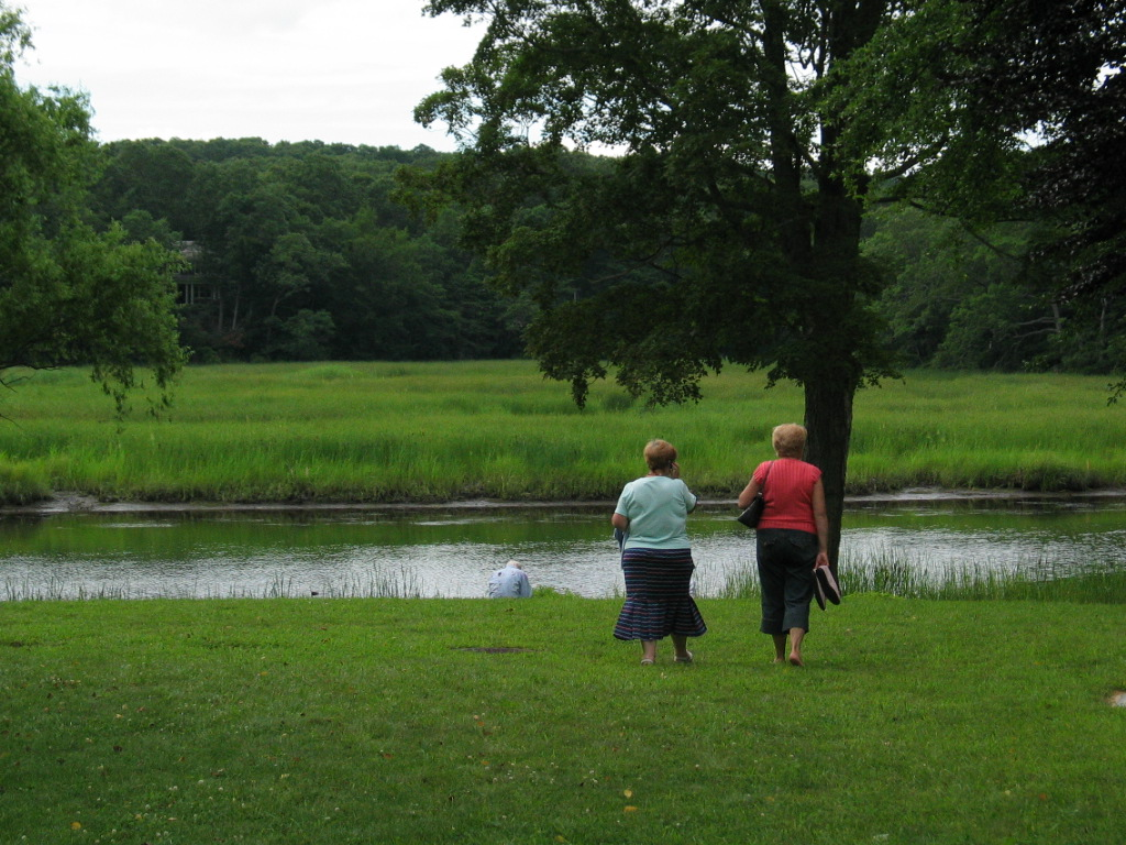 barefoot tourists sharing their feelings of Lyme, CT